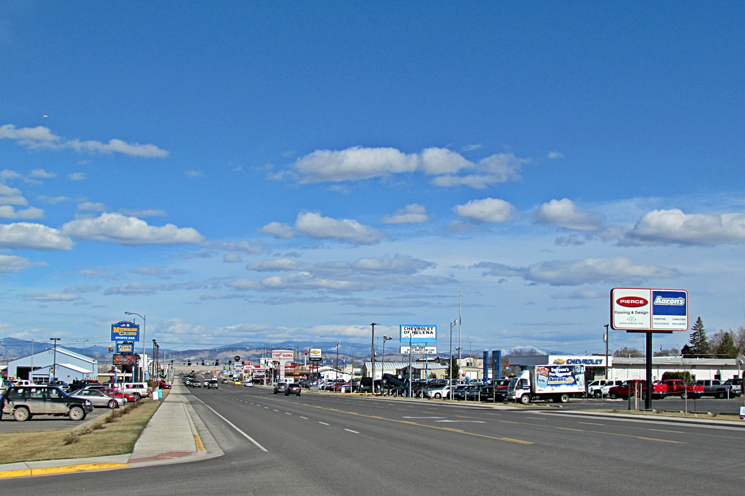 Helena is the capital city of the U.S. state of Montana and the county seat of Lewis and Clark County. The 2010 census put the population at 28,180, and the Lewis and Clark County population at 63,395. Helena is the principal city of the Helena Micropolitan Statistical Area, which includes all of Lewis and Clark and Jefferson counties; its population is 74,801 according to the 2010 U.S. Census. Source:Wikipedia Photographer was standing near the intersection of Cedar Street and Roberts Street.